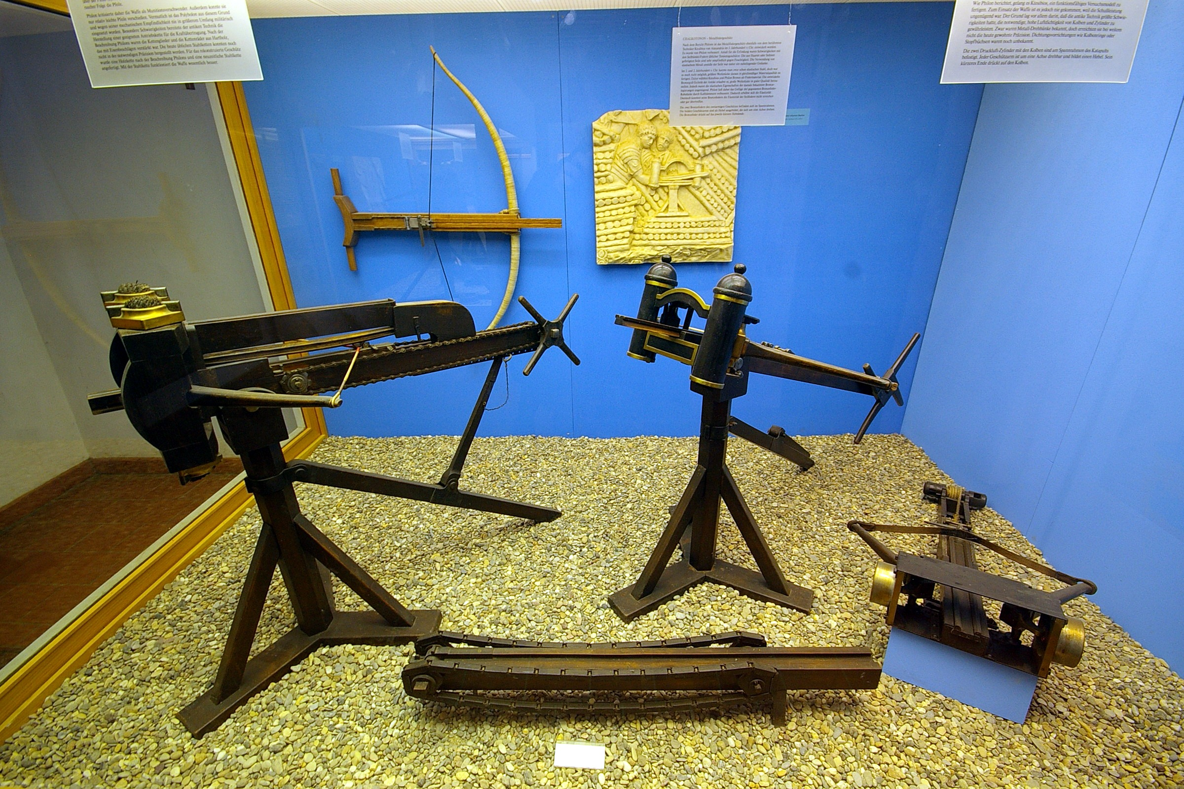 Reconstructions of ancient mechanical artillery in the Saalburg Museum, Hesse, Germany Left standing: Polybolos, a 3rd century BC repeating catapult (reconstruction by the German engineer Erwin Schramm (1856–1935)) Right standing: Philo's Chalkotonon, a bronze-spring catapult (reconstructed by Schramm as "Erzspanngeschütz") Bottom center: Wooden chain-drive mechanism of the Polybolos Bottom right: Philo's Aerotonon, a pneumatic catapult displayed without tripod stand (reconstructed by Schramm as "Luftspanngeschütz") Background, on wall: Gastraphetes, a Greek crossbow